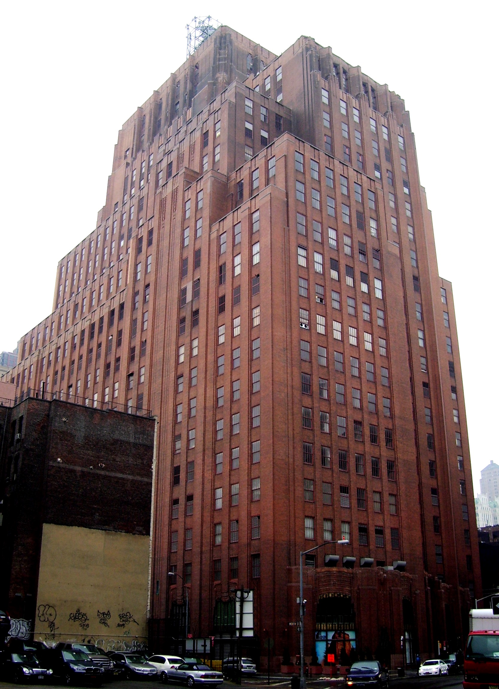 60 Hudson Street, a full-block building located between Hudson, Thomas and Worth Streets and West Broadway in the Tribeca neighbood of Manhattan, New York City. It was built in 1928-30 and was designed by Ralph Walker of the firm of Voorhees, Gmelin and Walker as the headquarters of the Western Union Company and contained offices, classrooms for messengers, an auditorium, cafeteria, shops and equipment rooms. The design of the building shows the influence of the Expressionist movement, and the exterior brick moves from darker shades to lighter ones as it rises, passing through 19 different colors. Both the interior and exterior of the building were designated NYC landmarks in 1991. (Sources: Guide to NYC Landmarks (4th ed.) and AIA Guide to NYC (4th ed.))